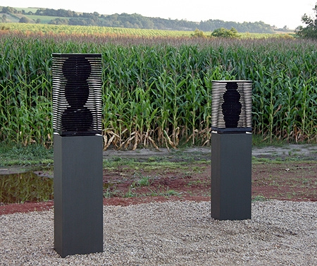 Sculptures, serpentinit from East Tyrol, sculpted, (1) 56 x 38 x 28 cm, (2) 73 x 38 x 38 cm both on a steel socket 114 x 38 x 38 cm